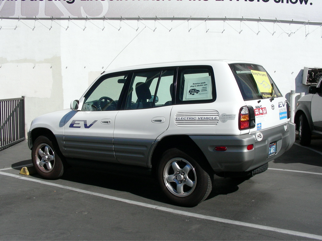 Toyota RAV4 EV (electric car) in California with free HOV access stickers